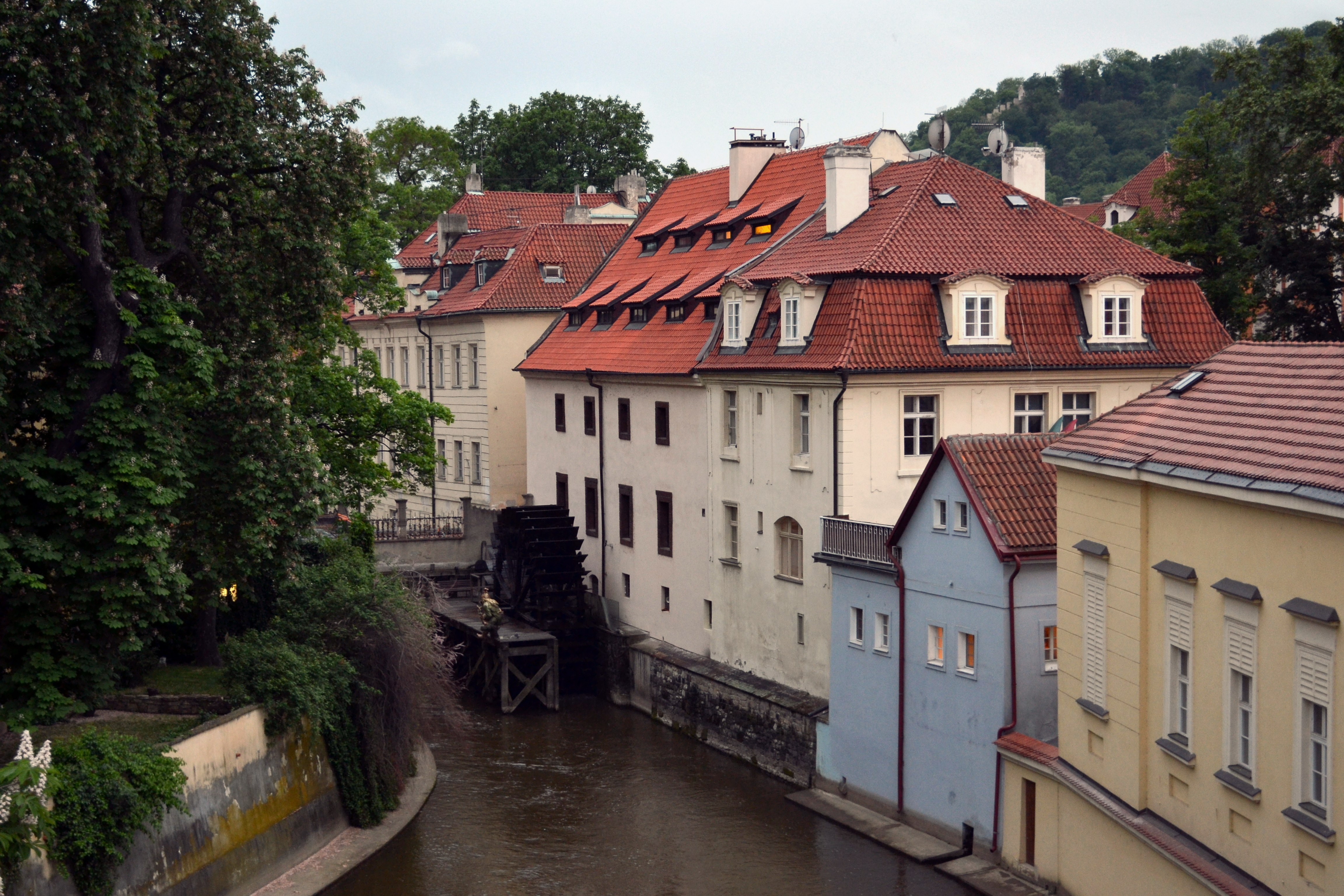 Watermill "Velkopřevorský mlýn" at Čertovka canal in Malá Strana, Prague 1, Czech Republic. View from Charles Bridge.